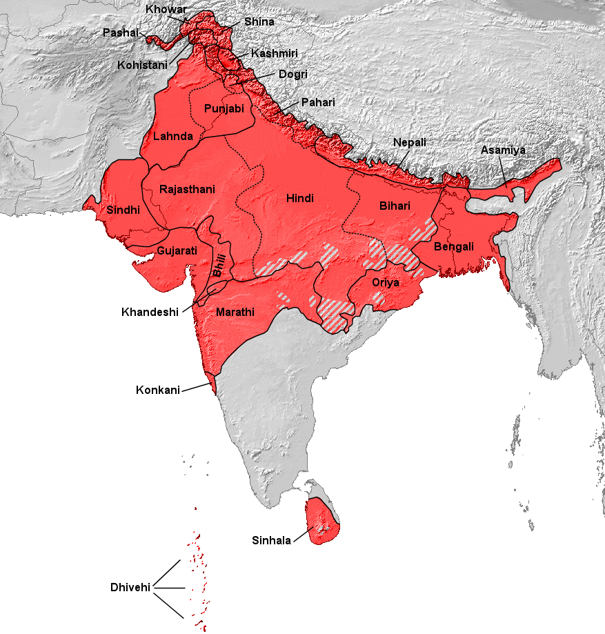 Area where Indo-Aryan languages are spoken Тоҷикӣ: Минтақаҳое, ки дар он ба забонҳои ҳинду-ориёӣ гап мезананд